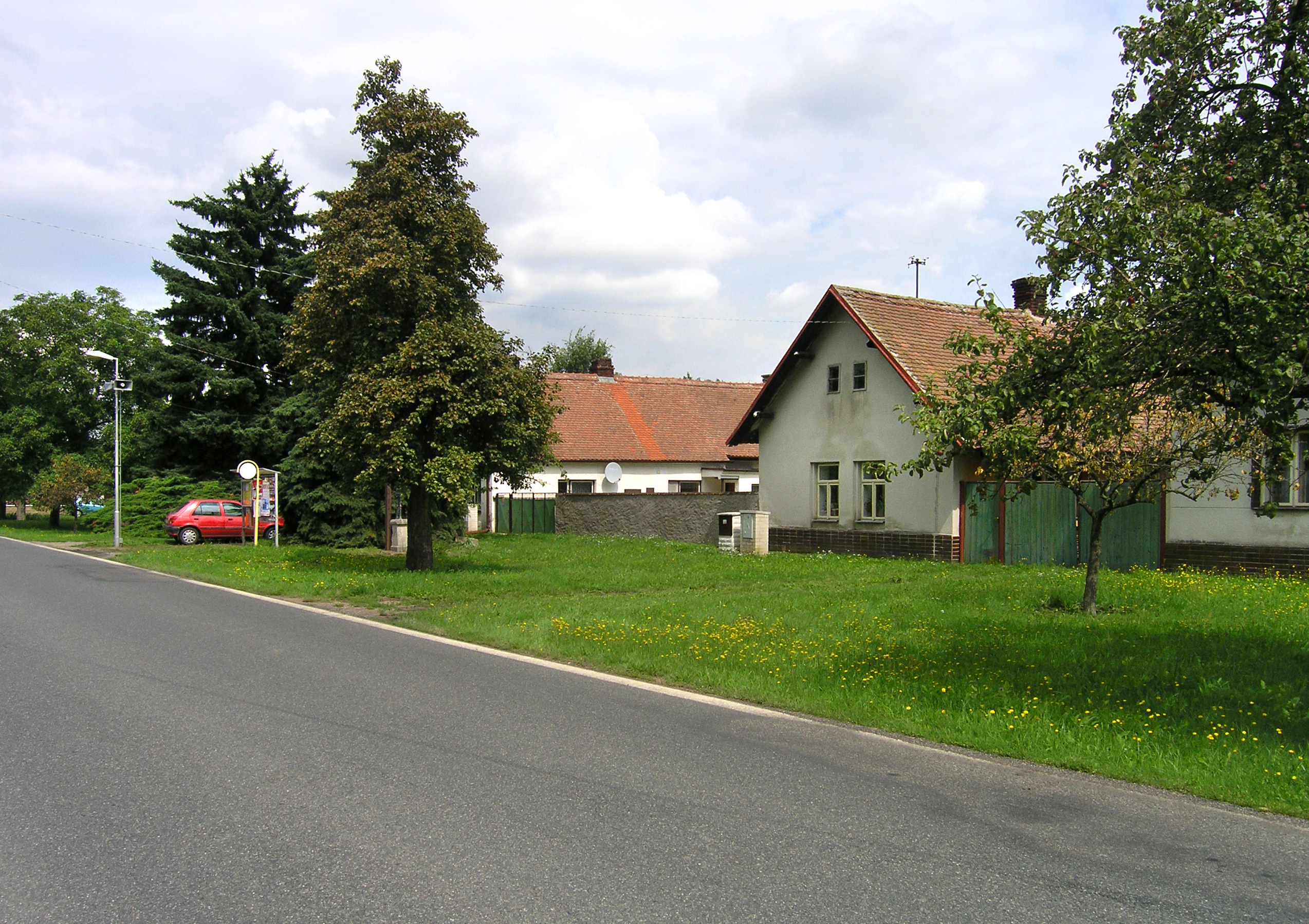 Borek, part of Horka I village, Czech Republic